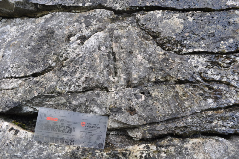 Carboniferous Coral, near to Ingleton, North Yorkshire, Great Britain. Seen in the ex Quarry SD6974 : Ex Limestone Quarry this coral has been fossilised upside down. Possibly washed here by a storm or strong tide (there is evidence for strong tides).